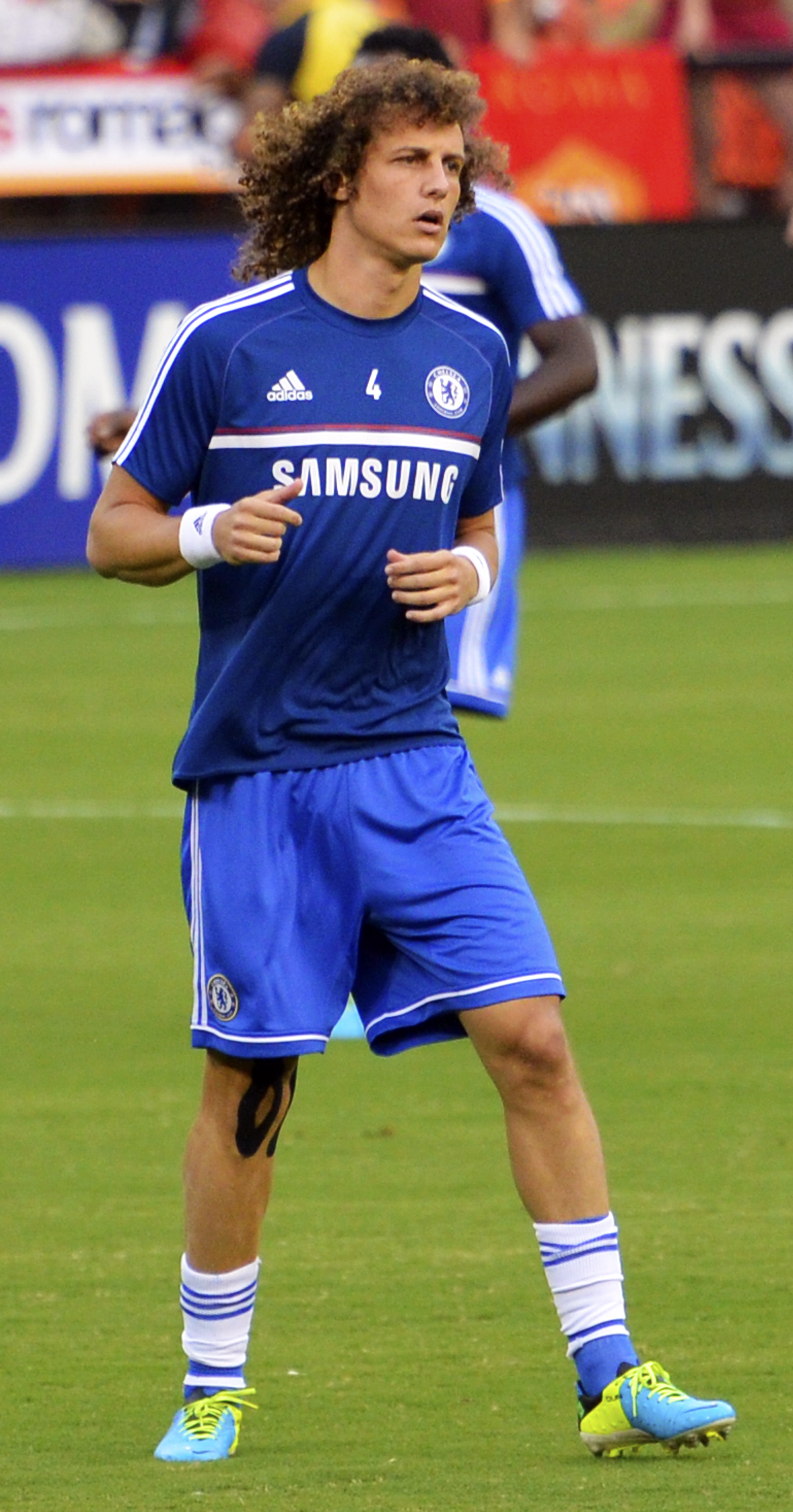 David Luiz, Chelsea FC, warming up prior to a friendly game against A.S.Roma. The game was played in Robert F. Kennedy Memorial Stadium, Washington, D.C. on 10AUG2013.